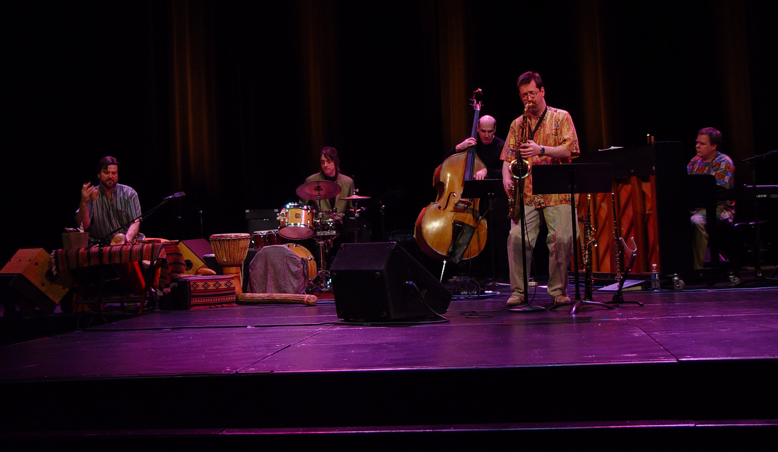 FLIPPOMUSIC at the College of Lake County Concert Series. Dave Flippo-keys, Dan Hesler-saxophone, Heath Chappell-drums, Donn De Santo-bass, Aras Biskis-percussion. 1994.